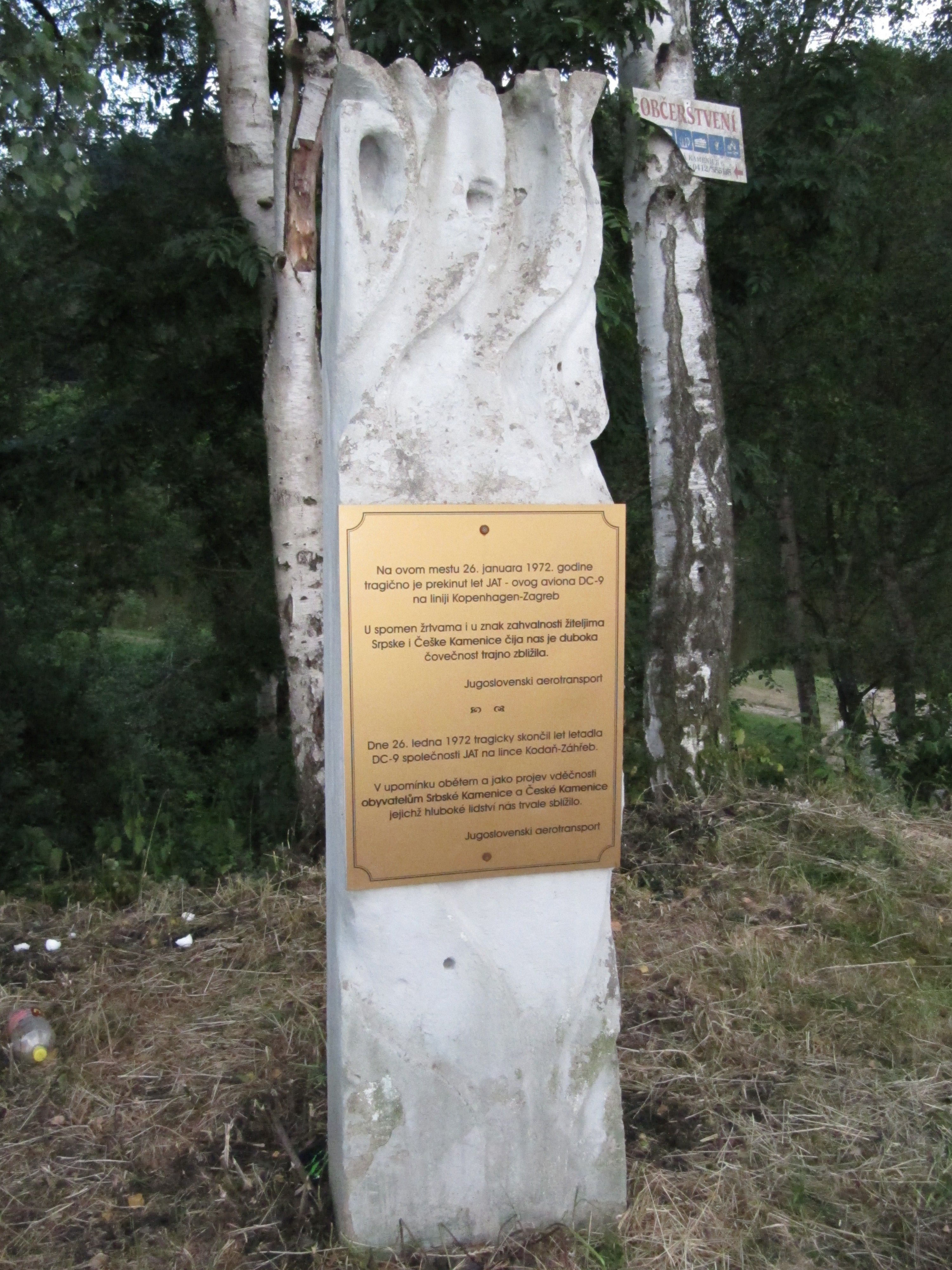 Srbská Kamenice in Děčín District, Czech Republic. Monument to victims of the Yugoslav aircraft tragedy of 1972.